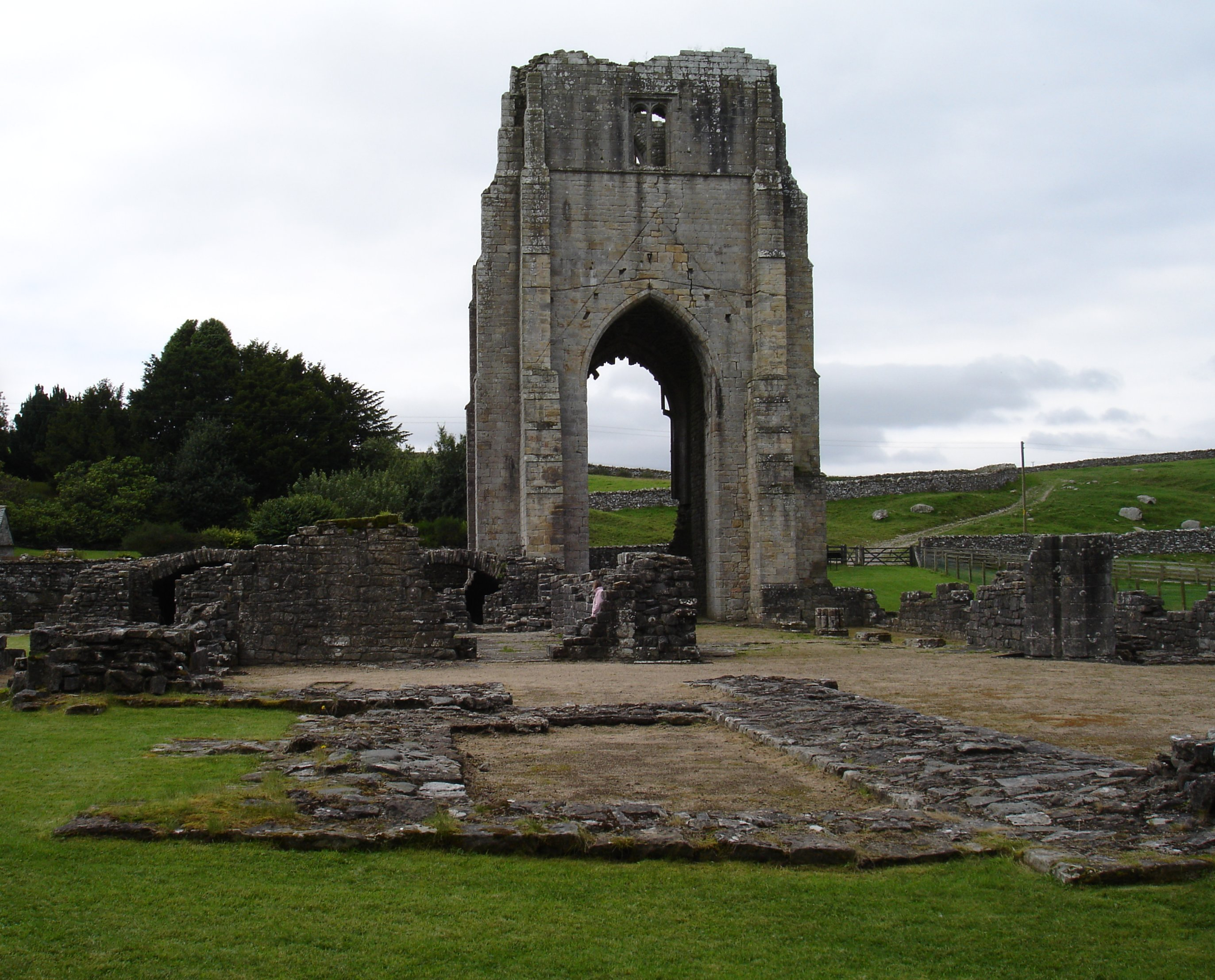 Photograph of Shap Abbey, Cumbria, England